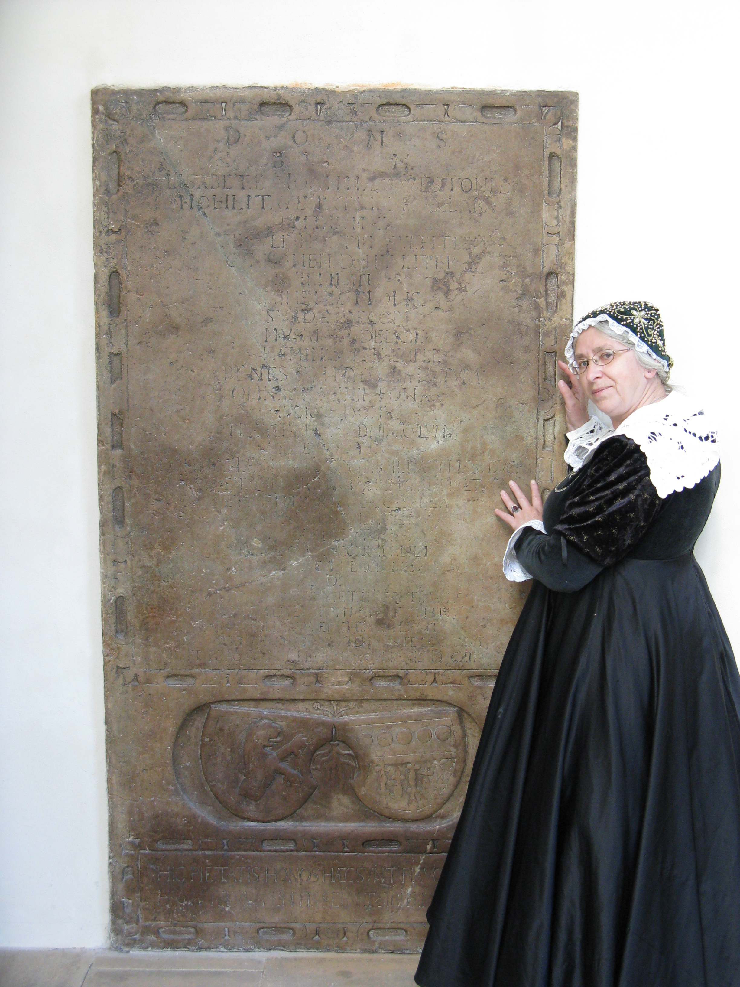 Augustinians monastery with the Saint Thomas the Apostle Church, The Lesser Town, Prague: Parish Festival, June 5-th 2010. Tomb stone of Elisabeth, the adopted daughter of Edward Kelley